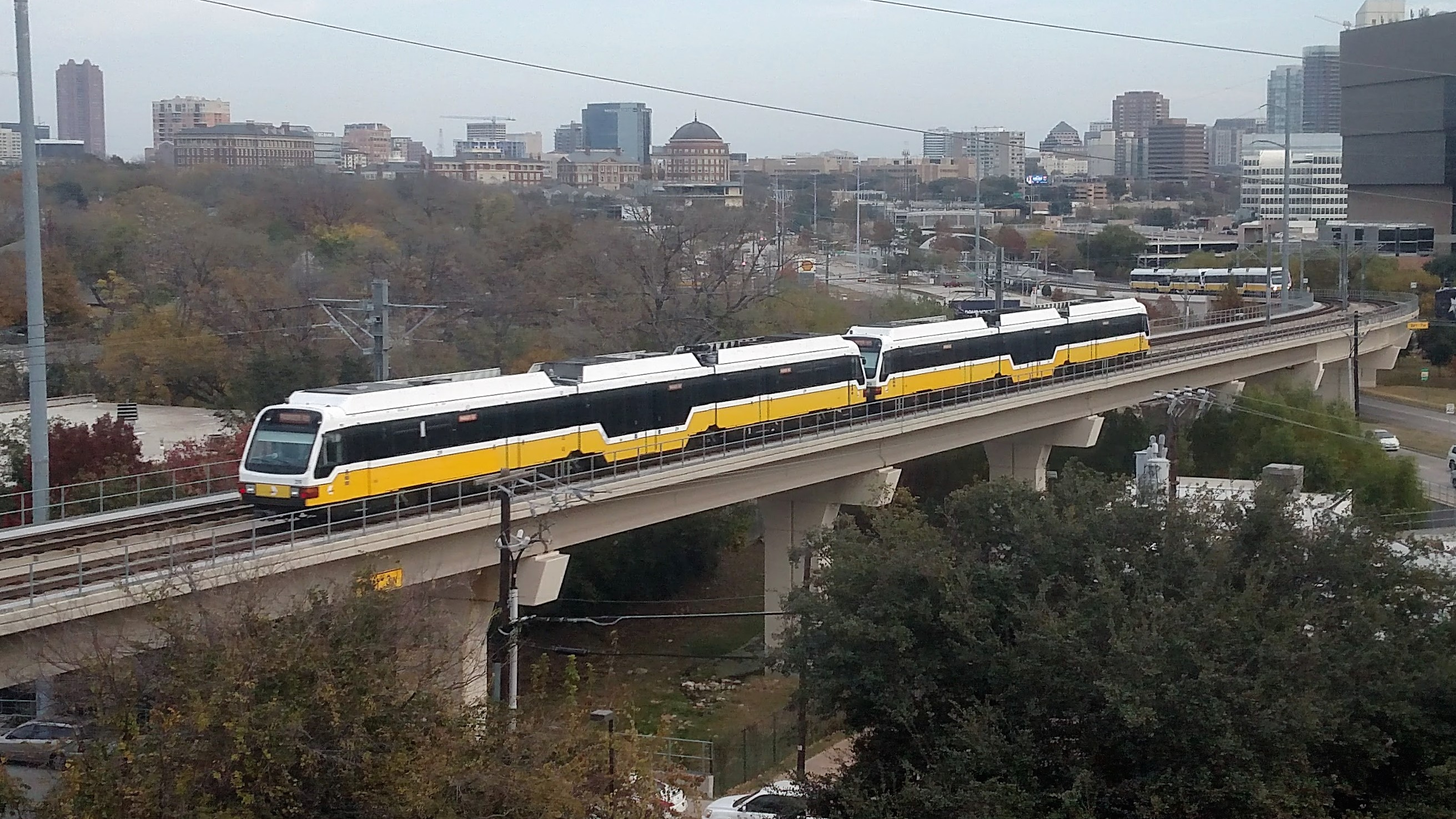 A Parker Road-bound Orange train crosses over Lucas Drive in Dallas, TX